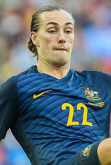 Chile VS. Australia 1 - 1, 25 June 2017